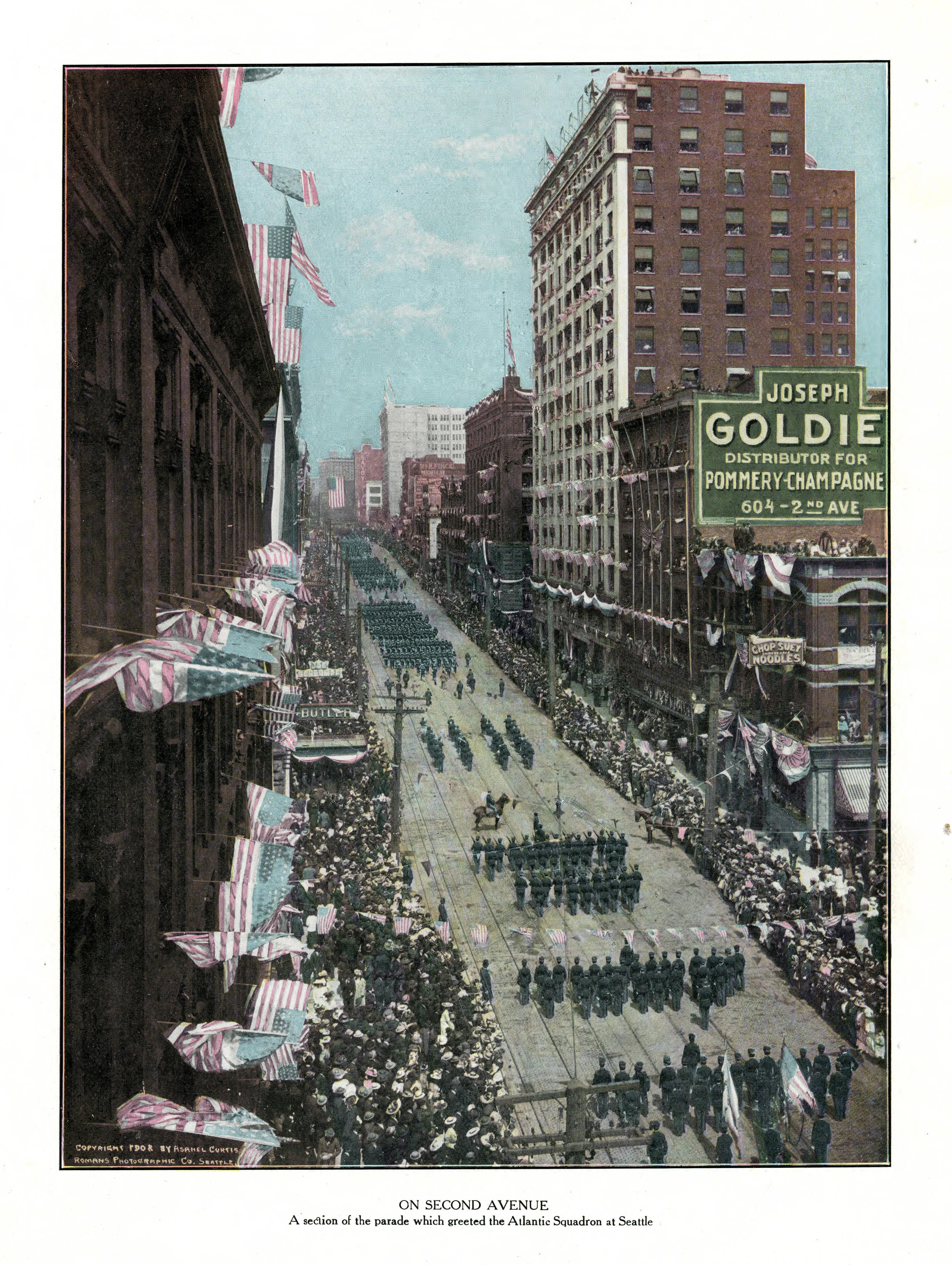 Tinted photo with caption: "ON SECOND AVENUE. A section of the parade which greeted the Atlantic Squadron at Seattle". From the materials for the Alaska-Yukon-Pacific Exposition of 1909, held in Seattle. The building in extreme perspective at near left is the Seattle Hotel (a.k.a. Hotel Seattle), demolished in the 1960s. The next building on the left is the Butler Hotel (its sign can be seen), the lower two stories of which survive. The first building on the right is gone, replaced in 1929 by the Hartford Building. The Corona Building and the Alaska Building (second and third from right) are still standing. The district has been successively enlarged, and hence has multiple NRHP IDs: 70000086, 78000341, and 88000739